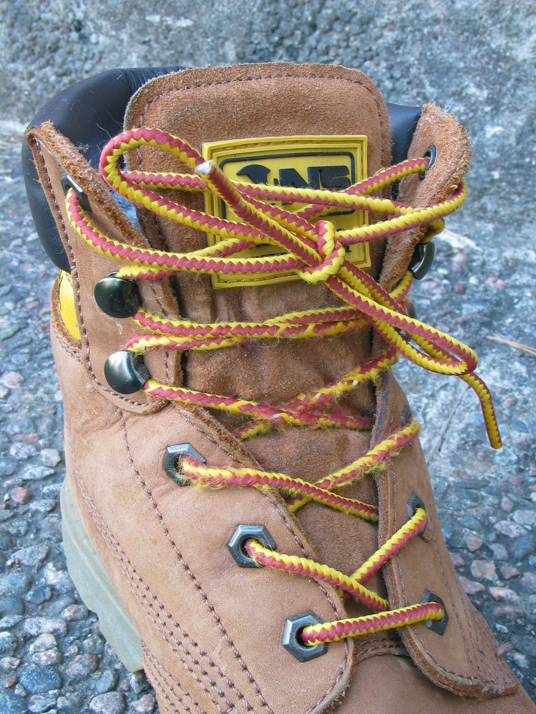 Boot with shoelaces, photo taken in Sweden The typical "knot" for tying shoelaces is actually a (twofold) slipped square knot.